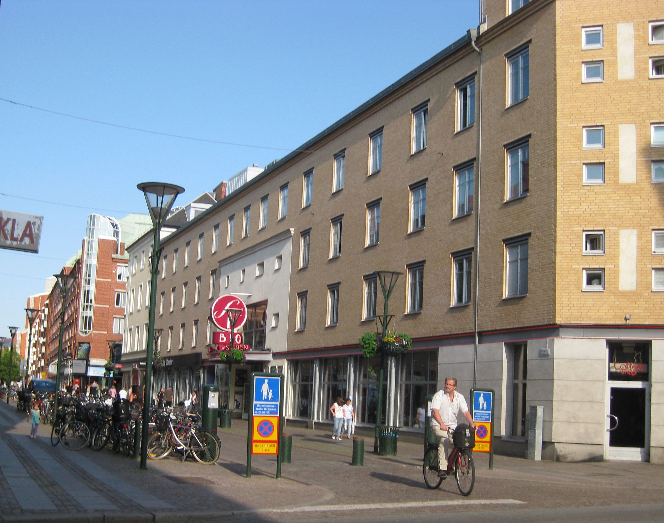 Storgatan, city street in Malmö, Sweden